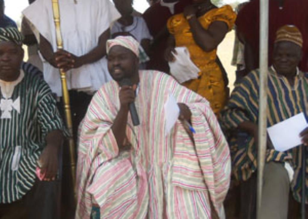 Ubor Konja addressing the youth and people of Kpassa in the Nkwanta North district of the Volta region during the inauguration of the area's branch of the Kokomba Student Union (KONSU).